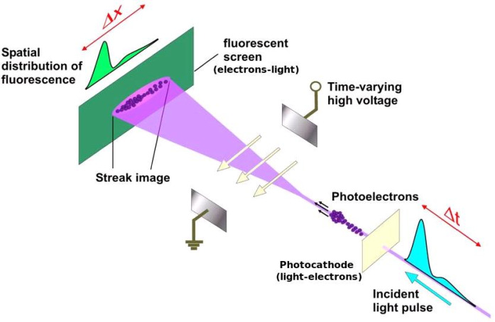 ISBN 978-3-95450-115-1